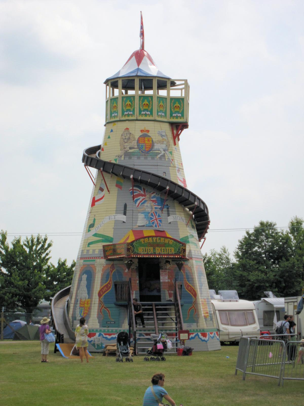 Vintage Fun Fair - Helter Skelter